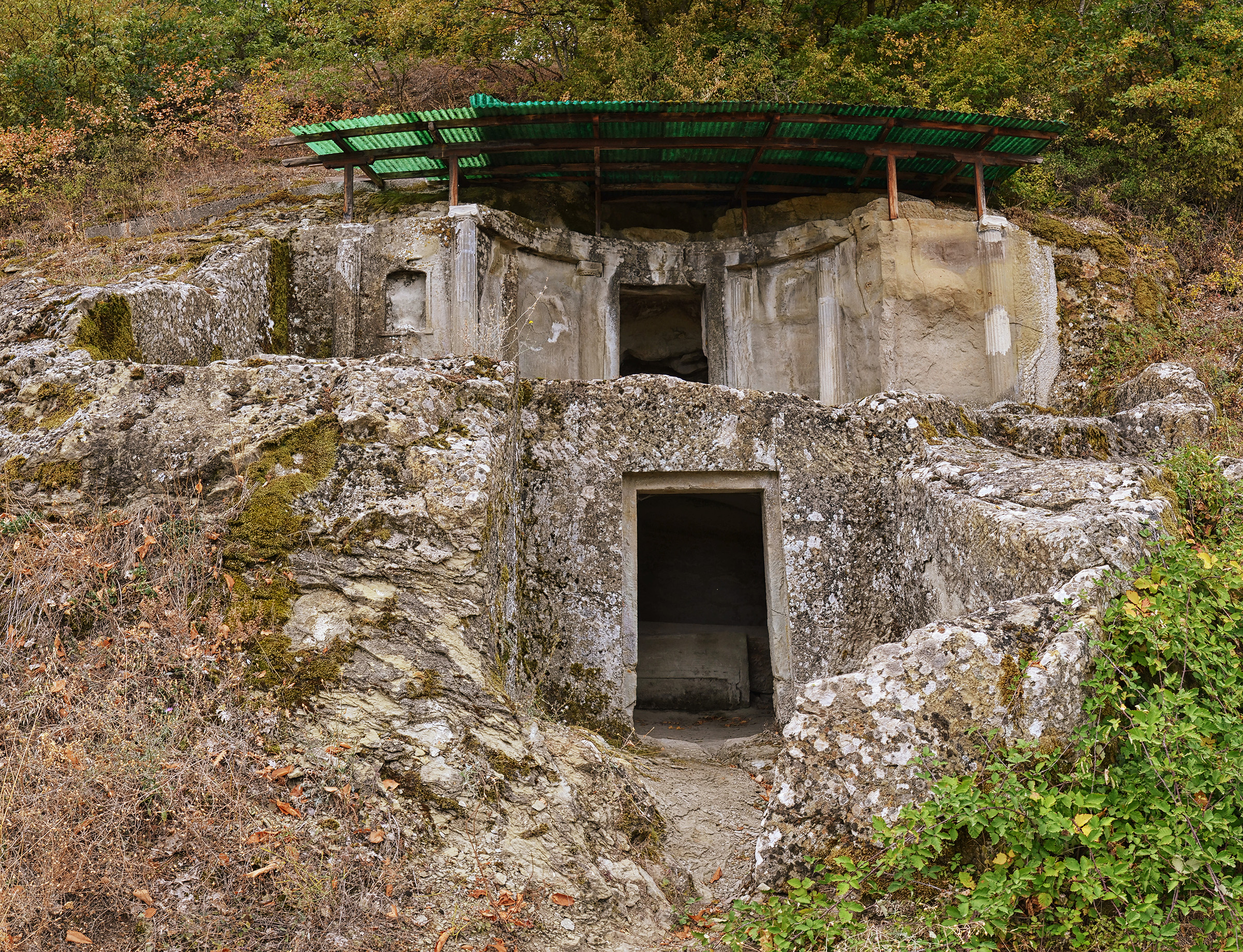 The monumental antique tombs of Selca e Poshtme in Albania – Tomb nr 3, supposedly the grave of King Monunius